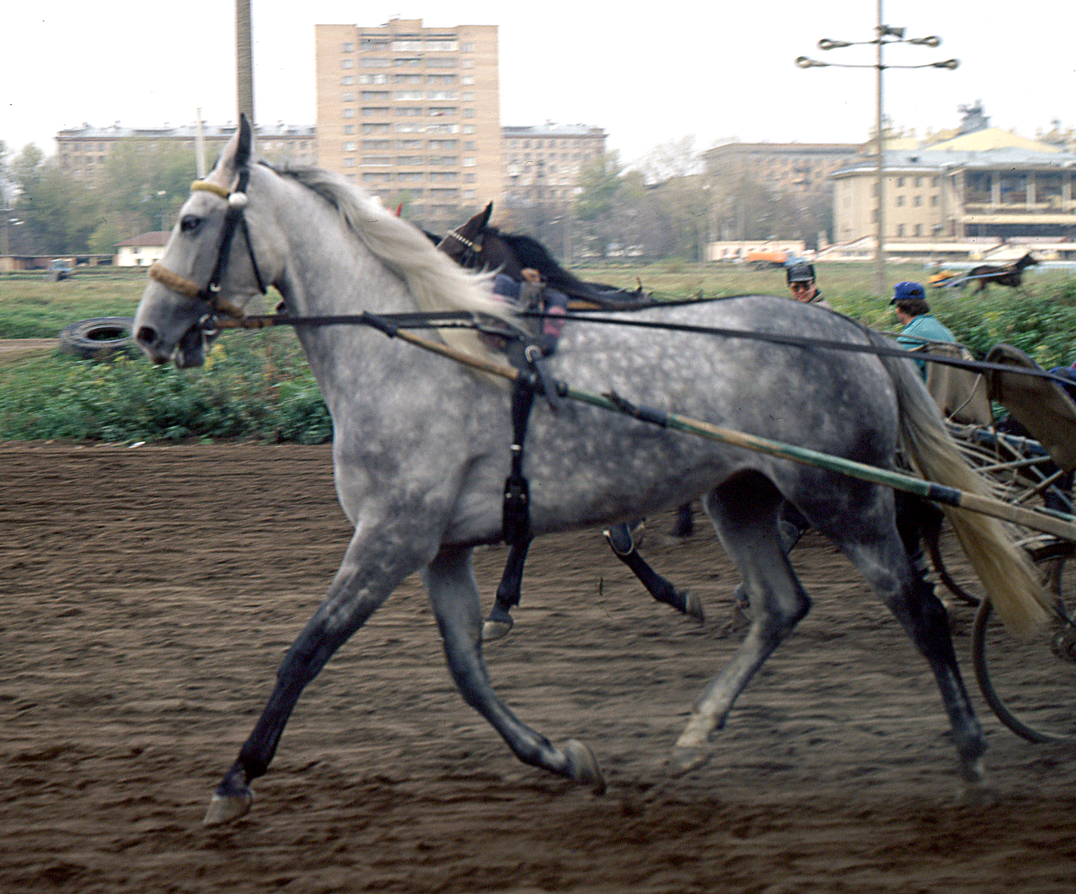 Orlov trotter in training at Moscow racecourse.